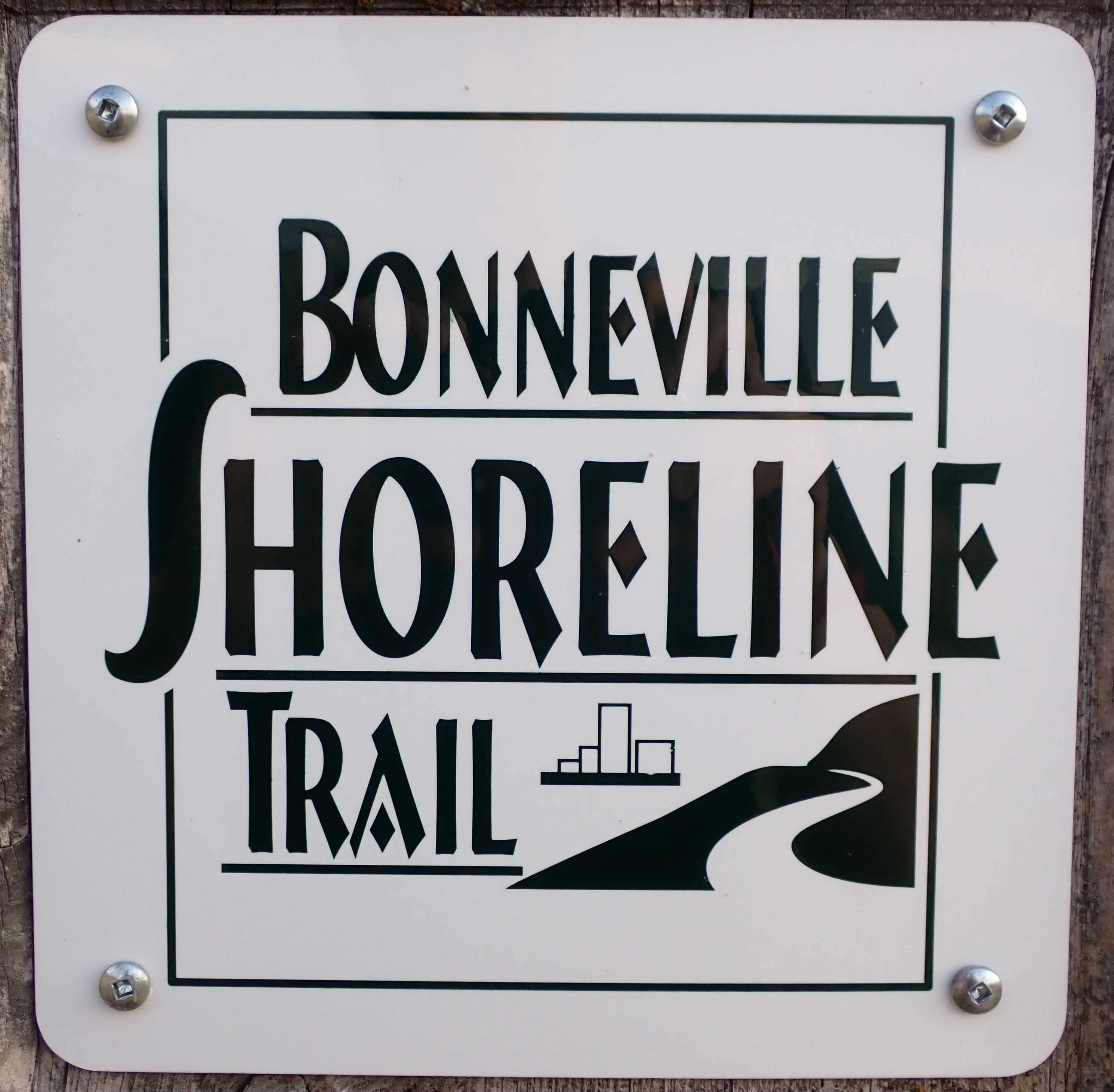 Sign of the Bonneville Trail in Ogden, Utah, USA